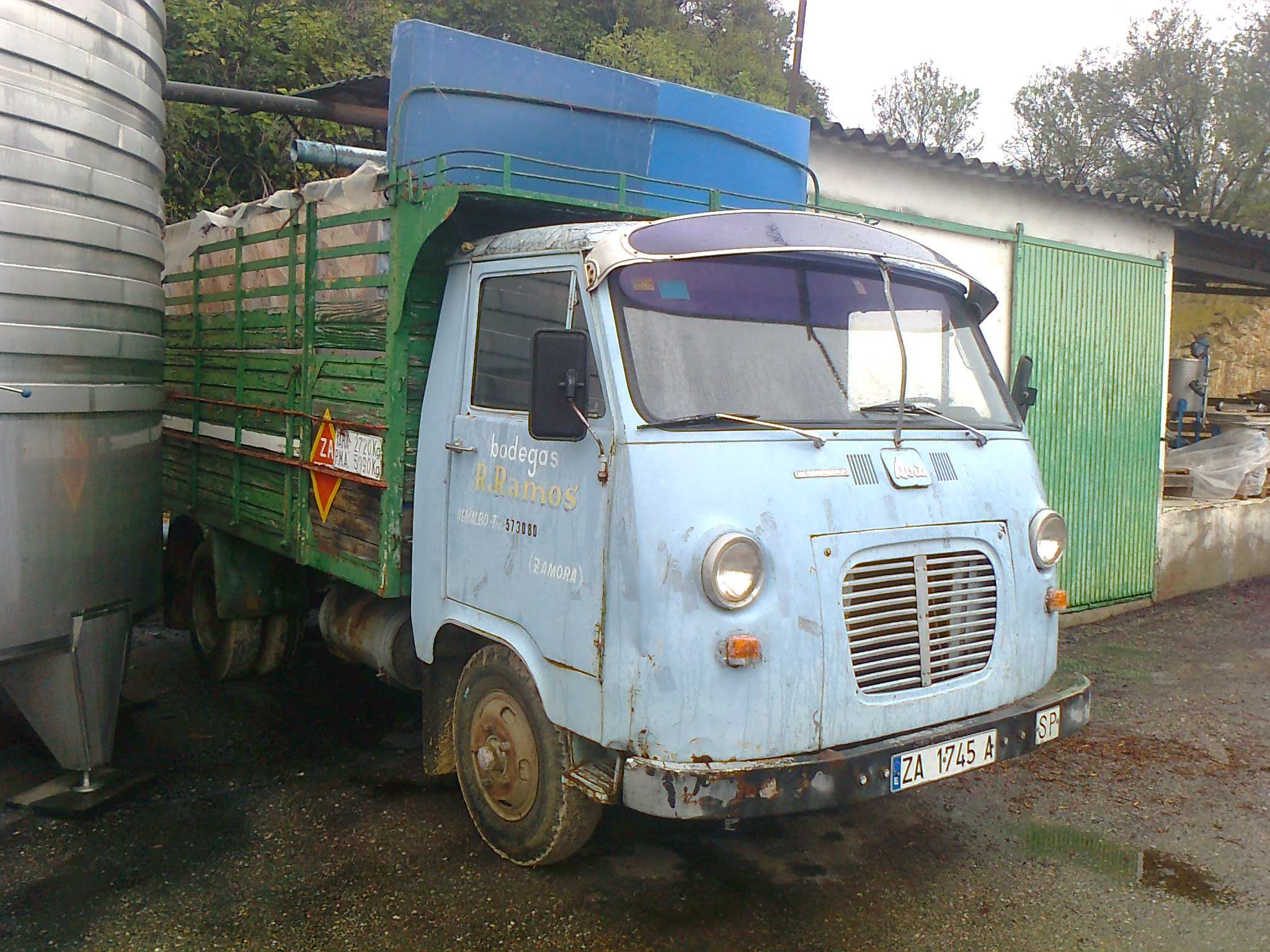 Spanish built AISA Avia 4000L truck (year 1972). Found in Bodegas Ramon Ramos (Peleagonzalo, Zamora, Spain, October 2013)